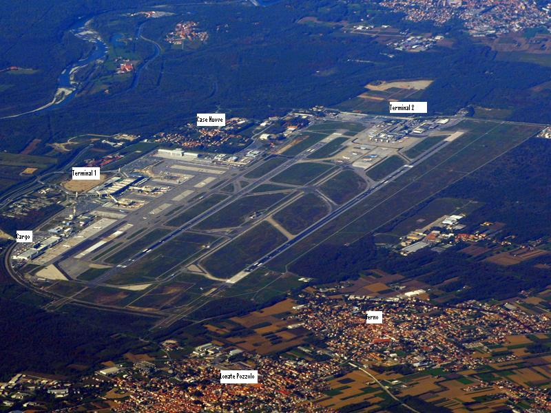 Added titles